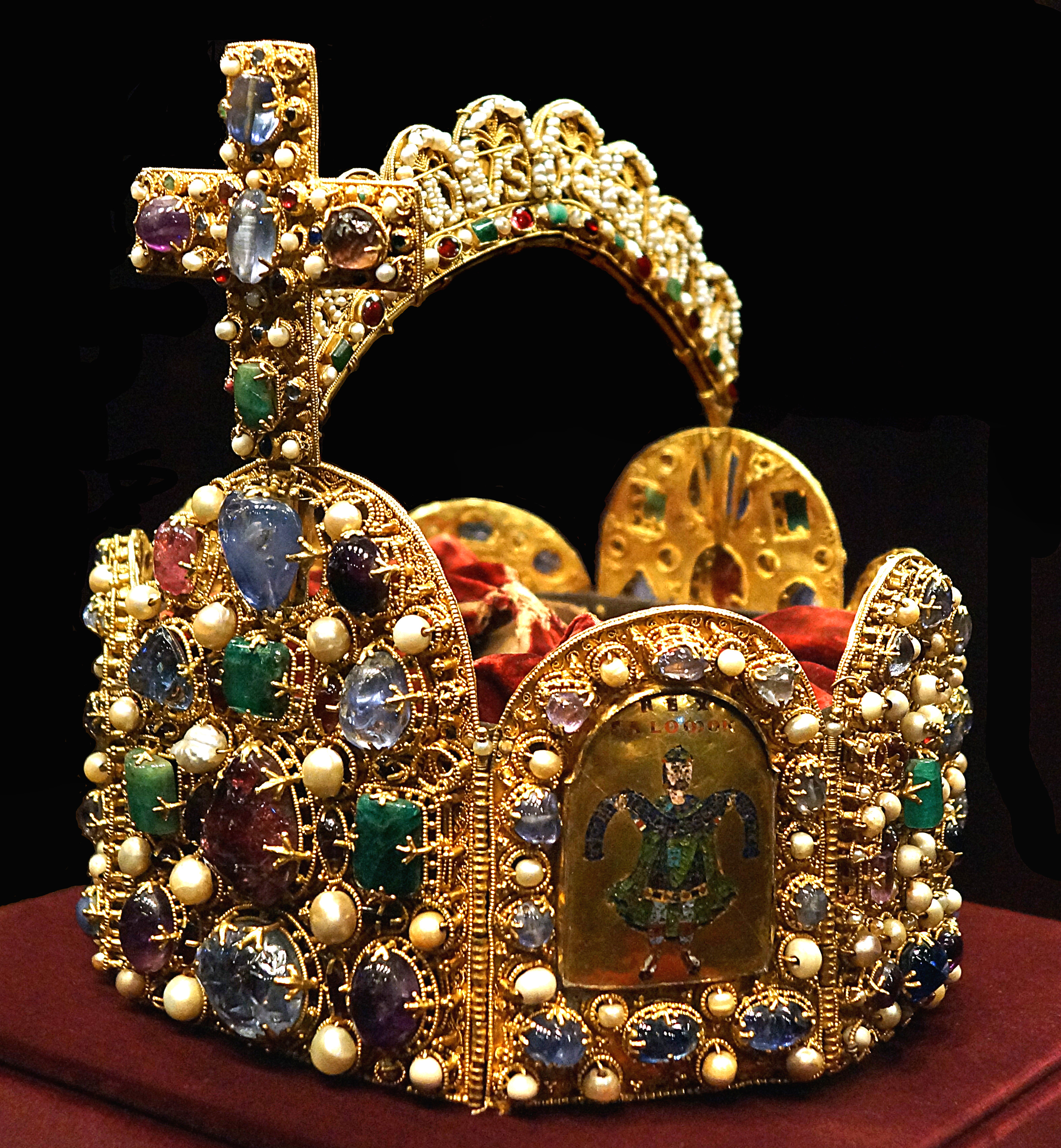 Blacked out and cropped version of The imperial crown of the Holy Roman Empire, displayed in the Imperial Treasury at the Hofburg, Vienna, Austria